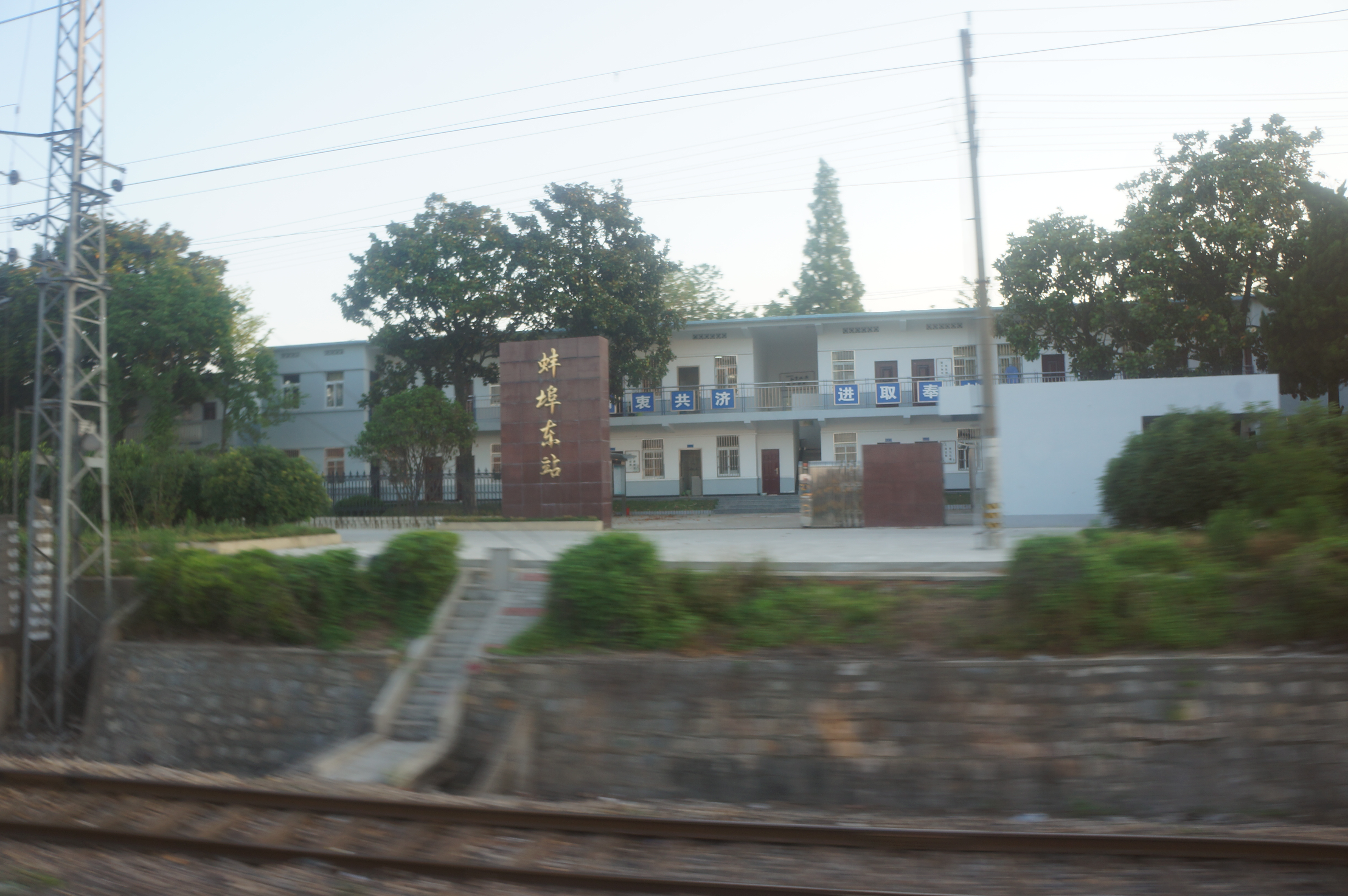 201705 Station building of Bengbudong Station